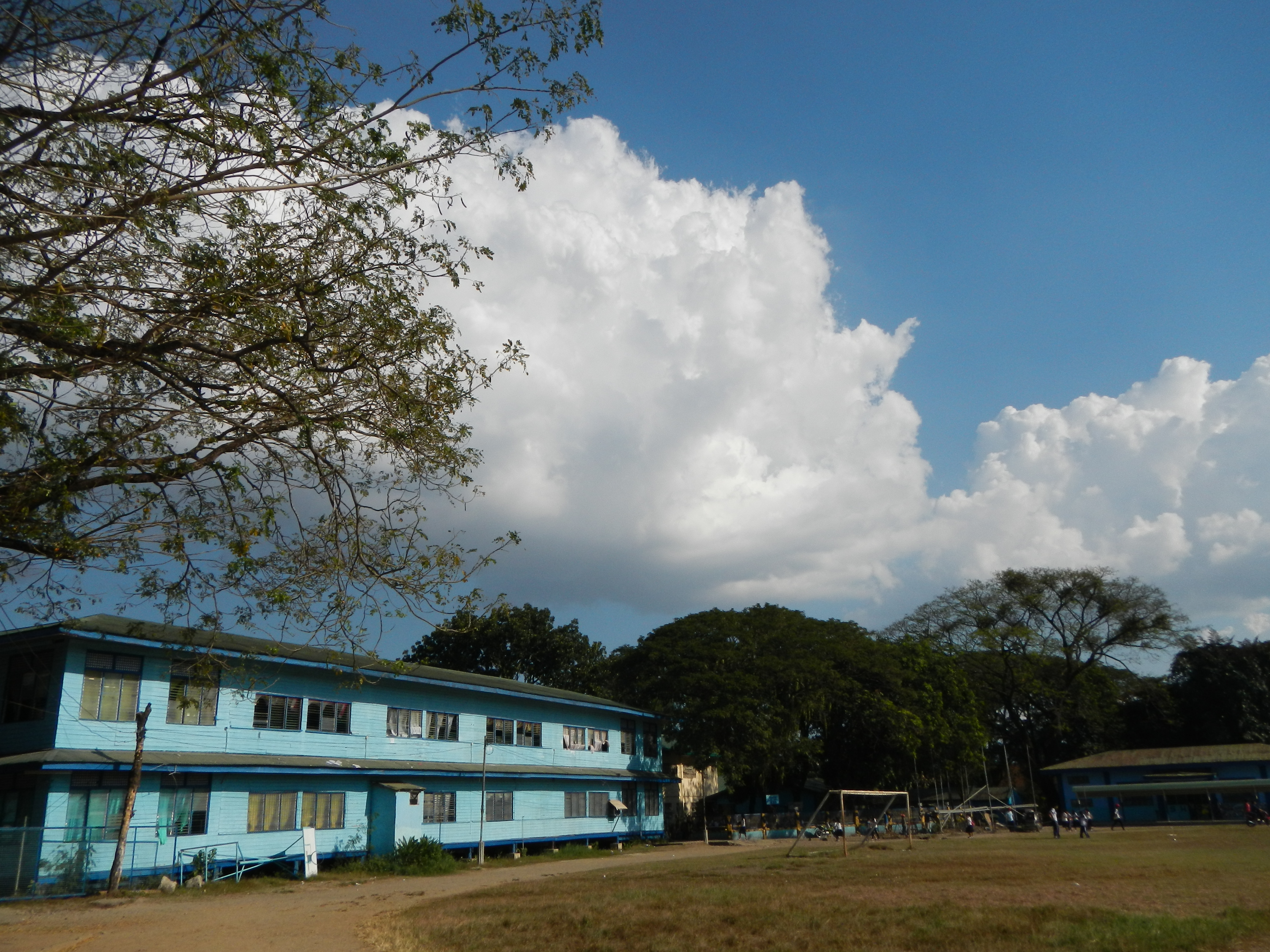 1946 San Miguel National High School[1]Scuala St., Brgy. San Juan,[2] is a government-funded secondary educational institution located in the municipality of San Miguel, Bulacan in the Philippines.[3]